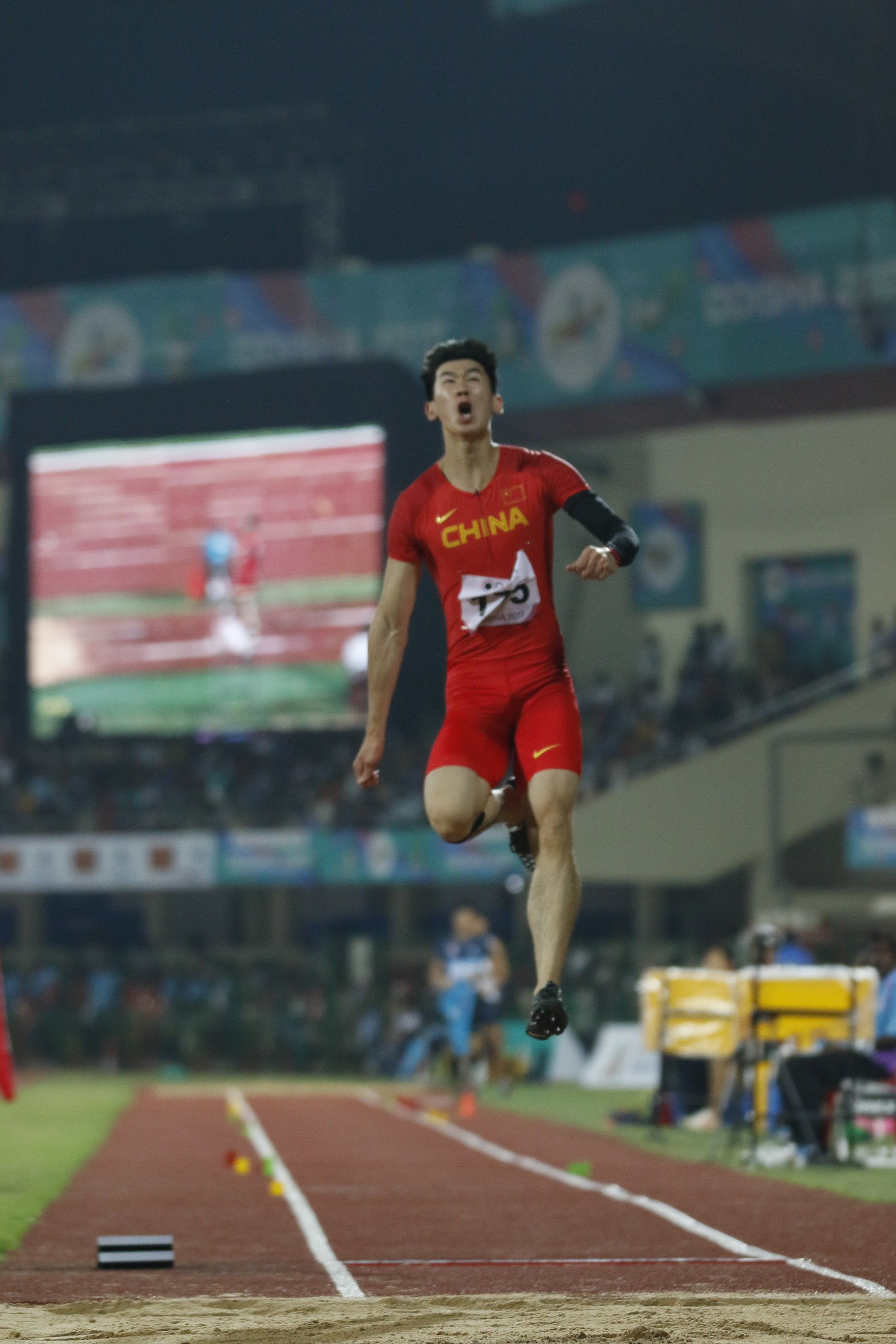 Athletes during 22nd Asian Athletics Championships in Bhubaneswar.